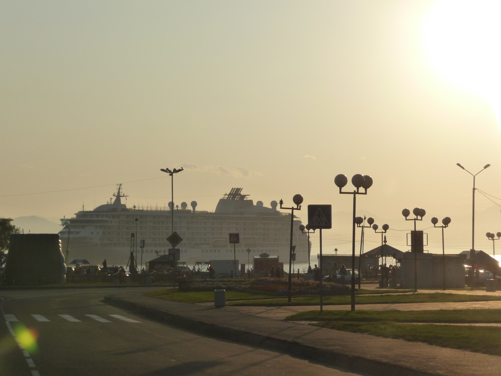 Cruise ship in Avacha Bay